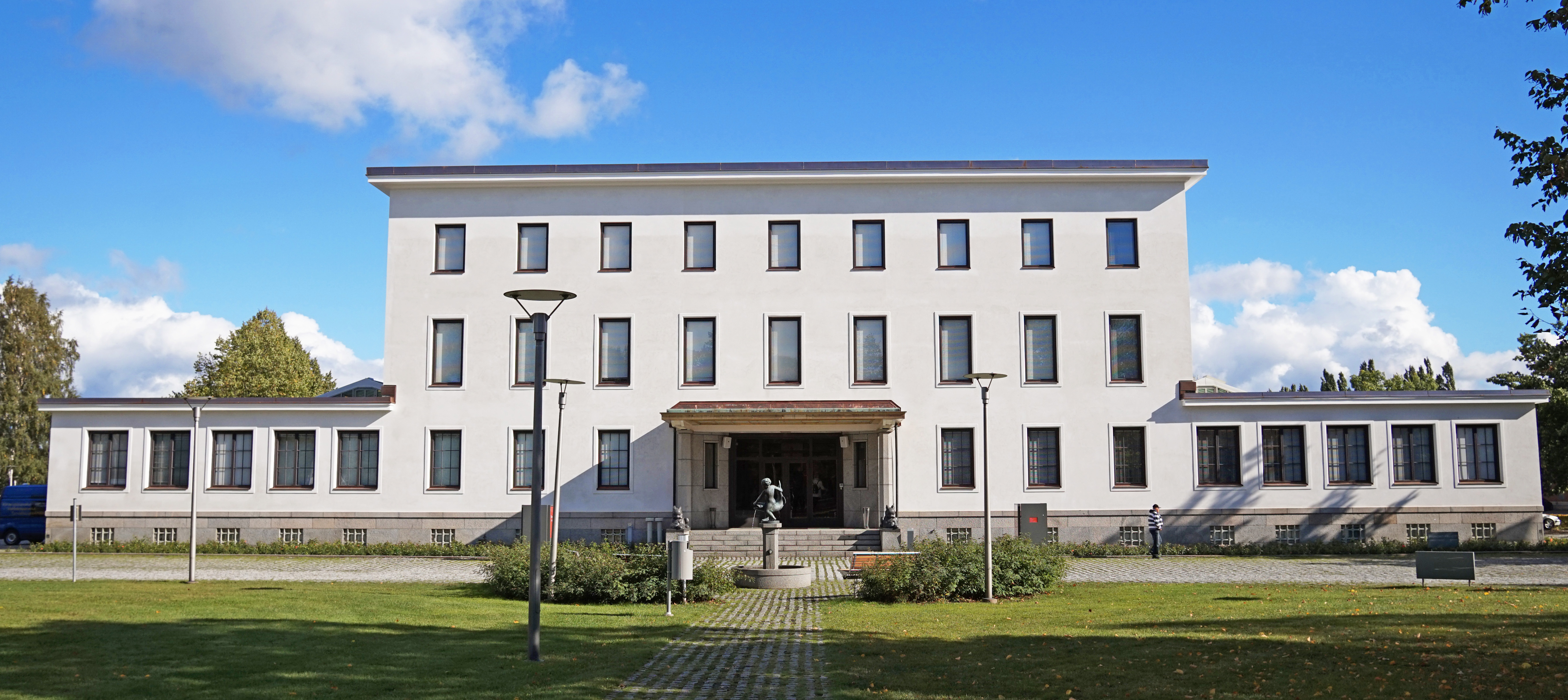 Serlachius Museum Gustaf, Mänttä.